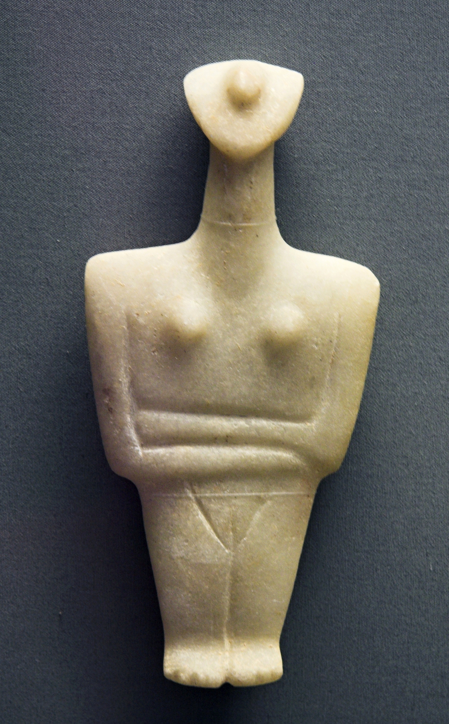 Idol of the island Syros. EC II (2800-2300 BC). The canonical type. National Archaeological Museum of Athens.